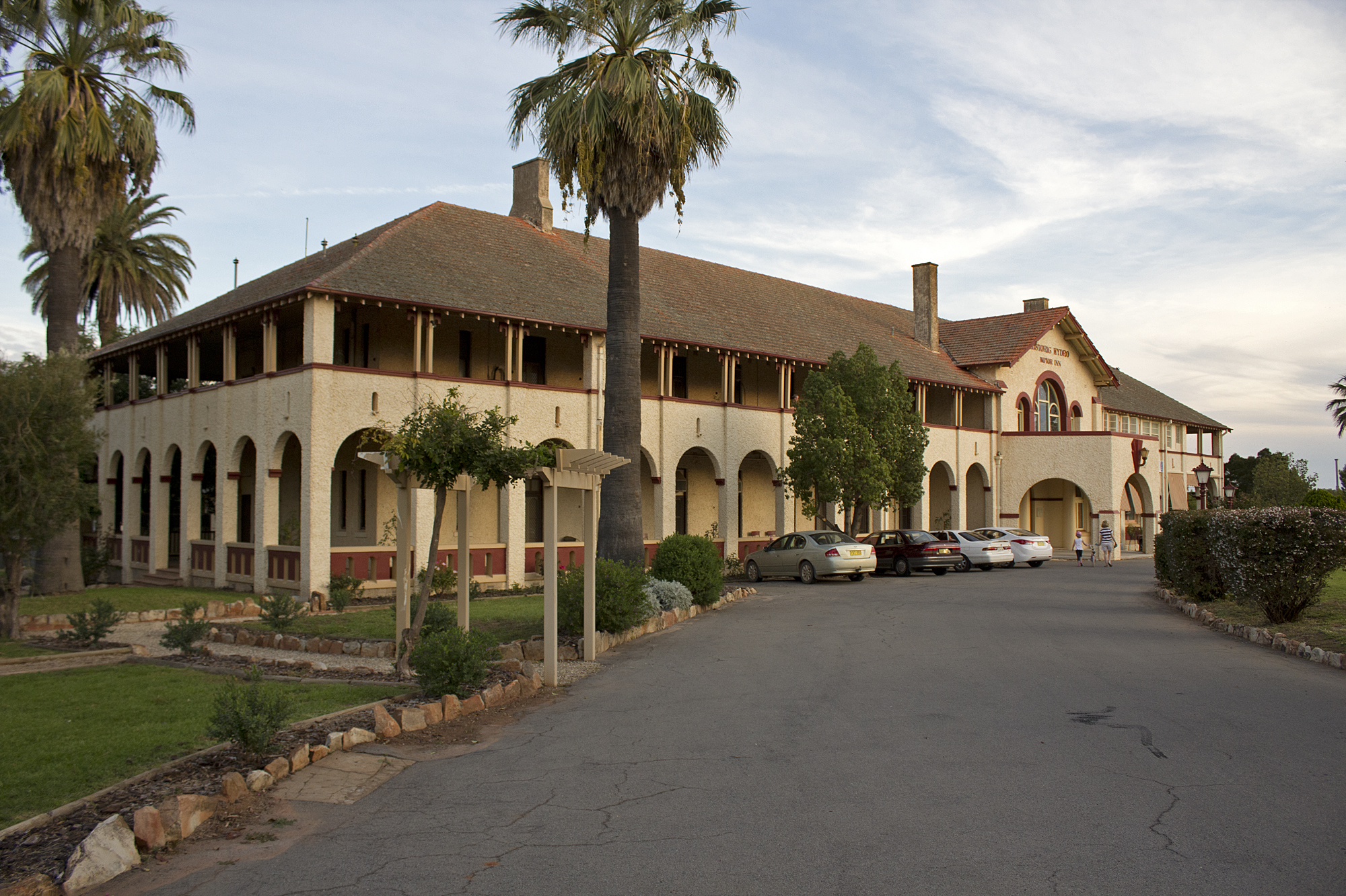 Historic Hydro Motor Inn in Leeton, New South Wales.